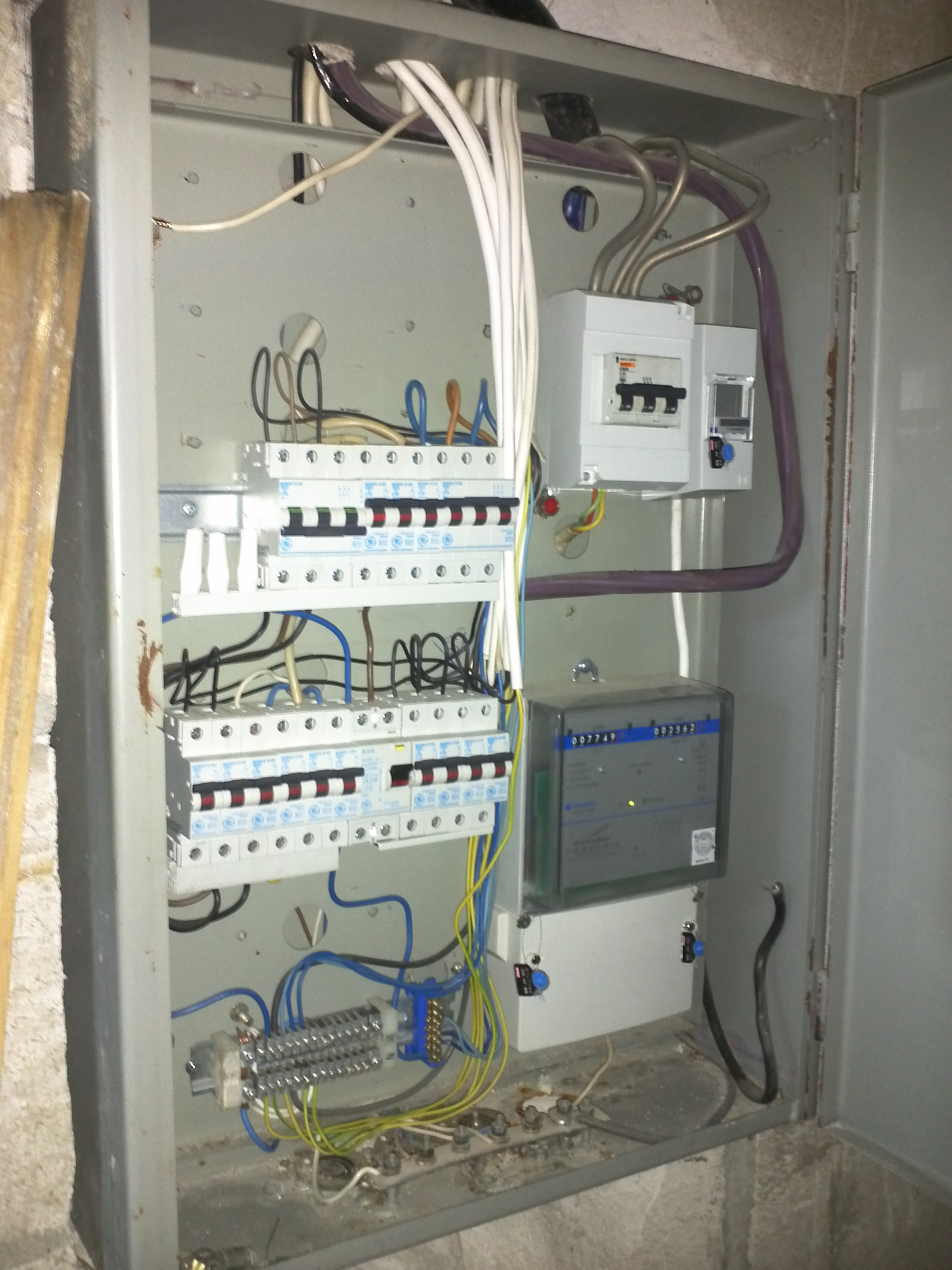 What I had found in summer cottage panel =)